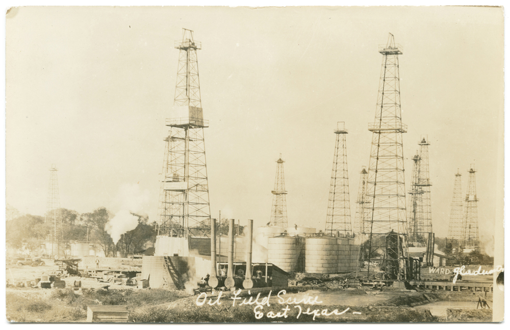 Title: Oil Field Scene, East Texas Creator: Ward Date: ca. 1930s Part Of: Collection of real photographic postcards of Texas Place: Gladewater, Texas Physical Description: 1 photographic print (postcard) File: ag2005_0001_03_094_c_gladewater_opt.jpg Rights: Please cite DeGolyer Library, Southern Methodist University when using this file. A high-resolution version of this file may be obtained for a fee. For details see the web page. For other information, . For more information, View Texas: Photographs, Manuscripts, and Imprints